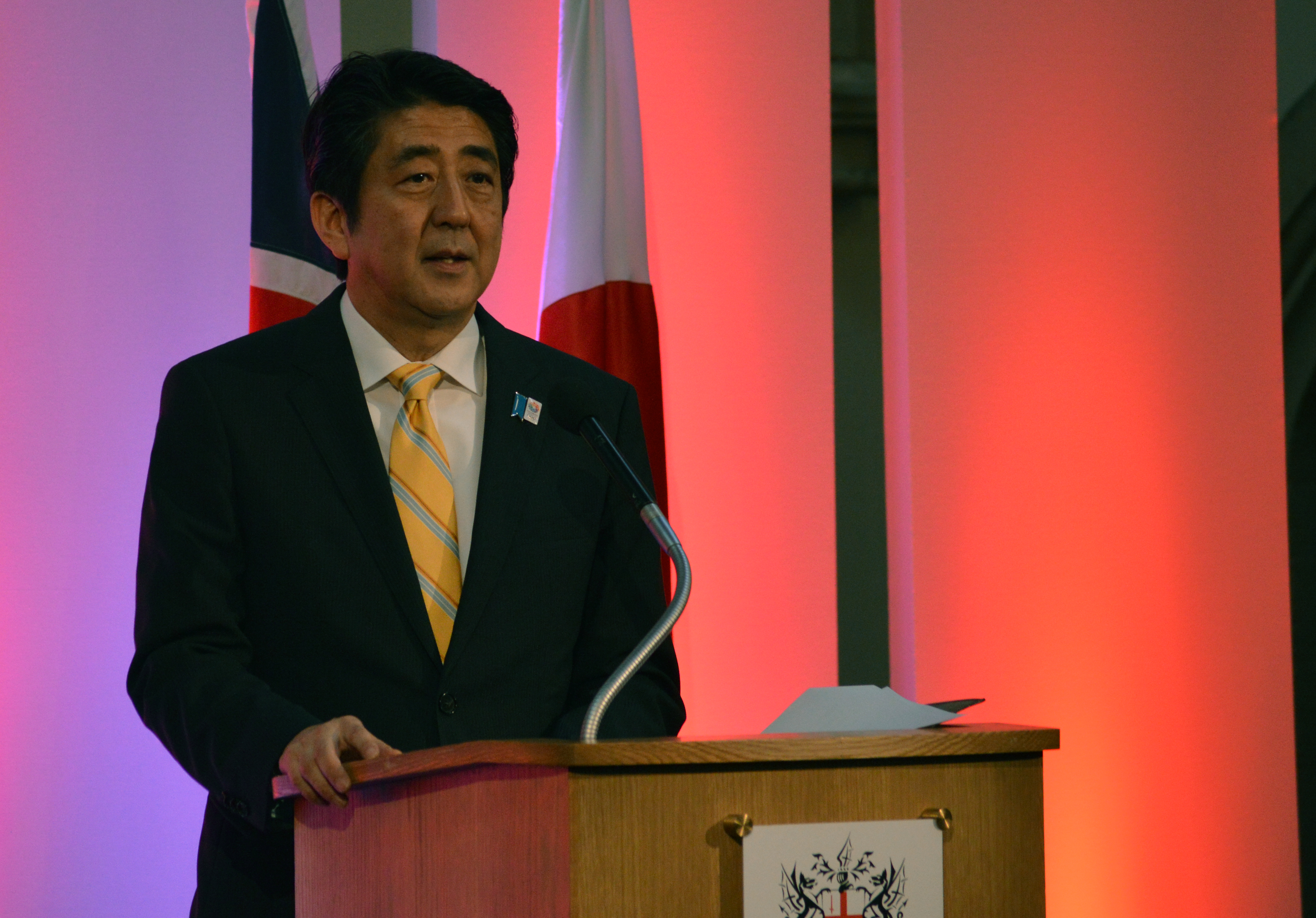 Japan's Economic Revival (at Guildhall, London) 20 June 2013 cht.hm/12cWn73